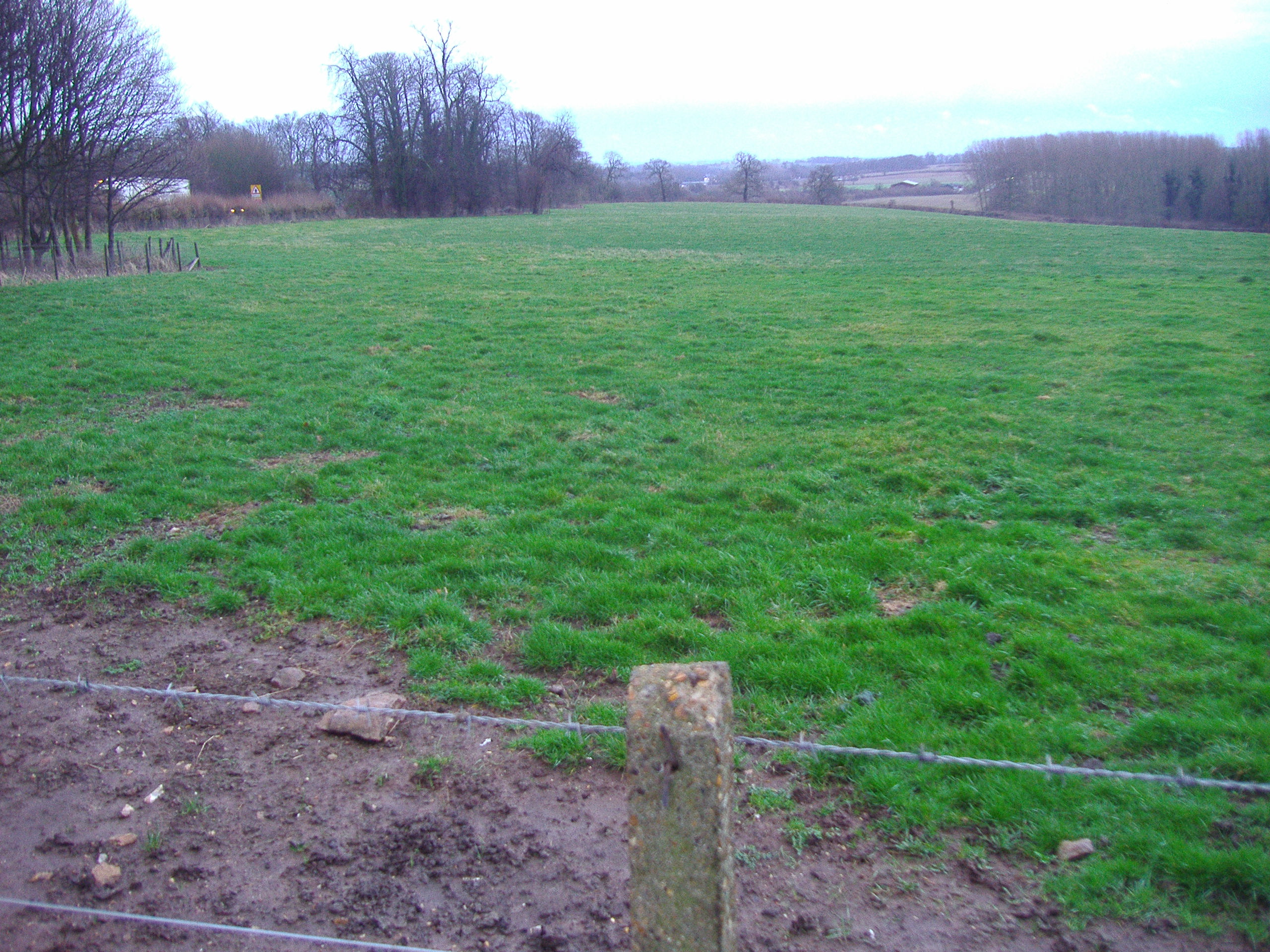 A Digital photograph of the site of Bannaventa near Norton in Northamptonshire taken on the 22 Jan 2008 by Stavros1 (talk) 01:49, 25 January 2008 (UTC)